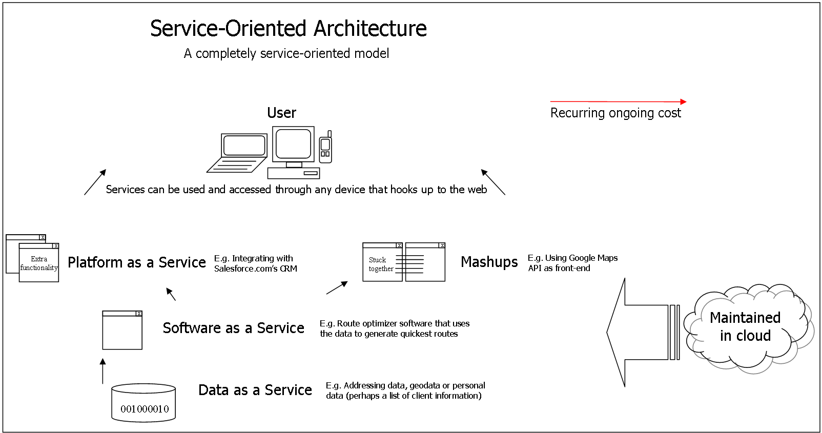 A model detailing the basic structure of a completely Service Oriented Architecture. Remember that any of the stages can be switched with an in-house or "traditional" equivalent; this architecture is wholly service-oriented.